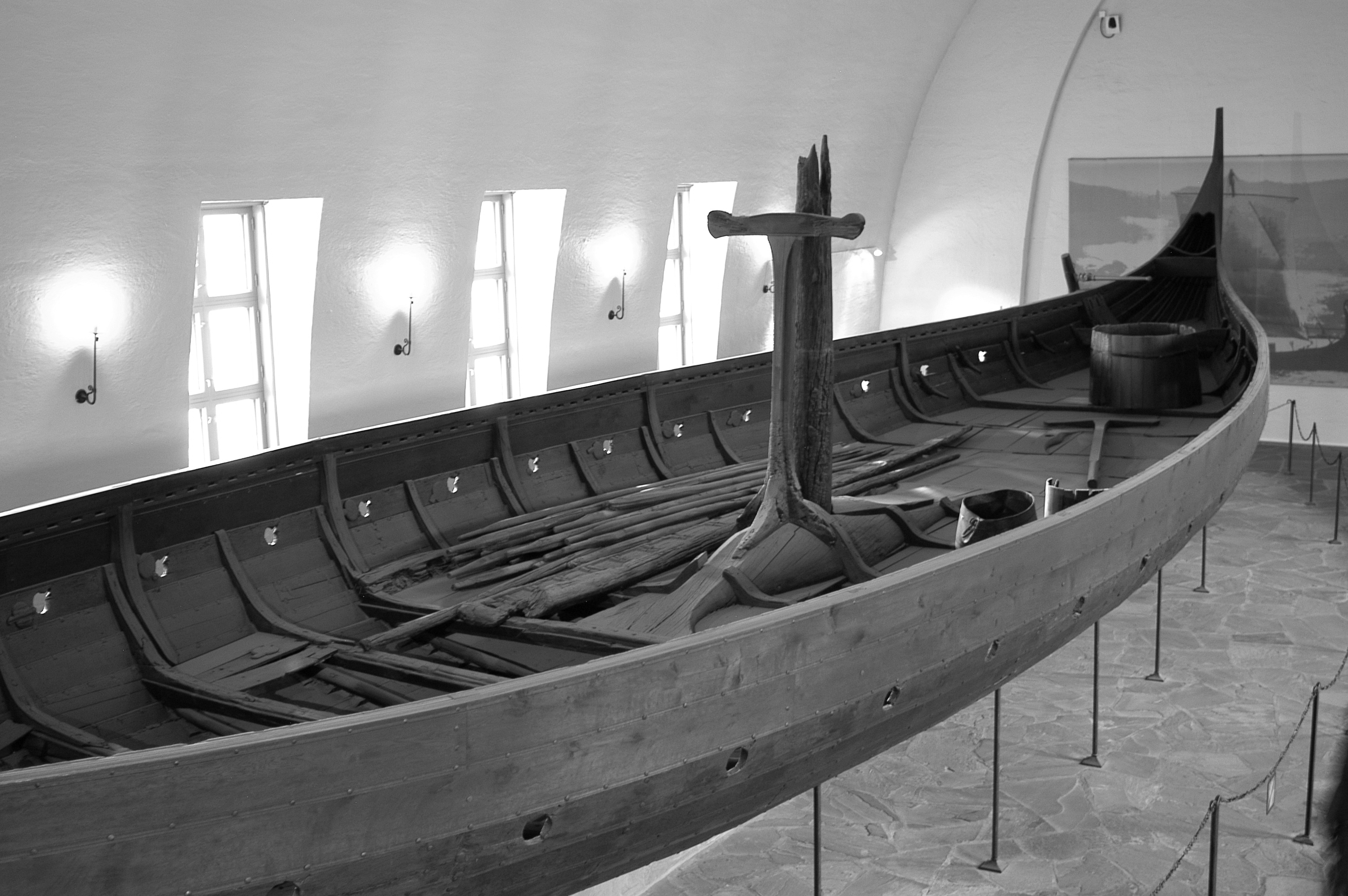 The Gokstad ship